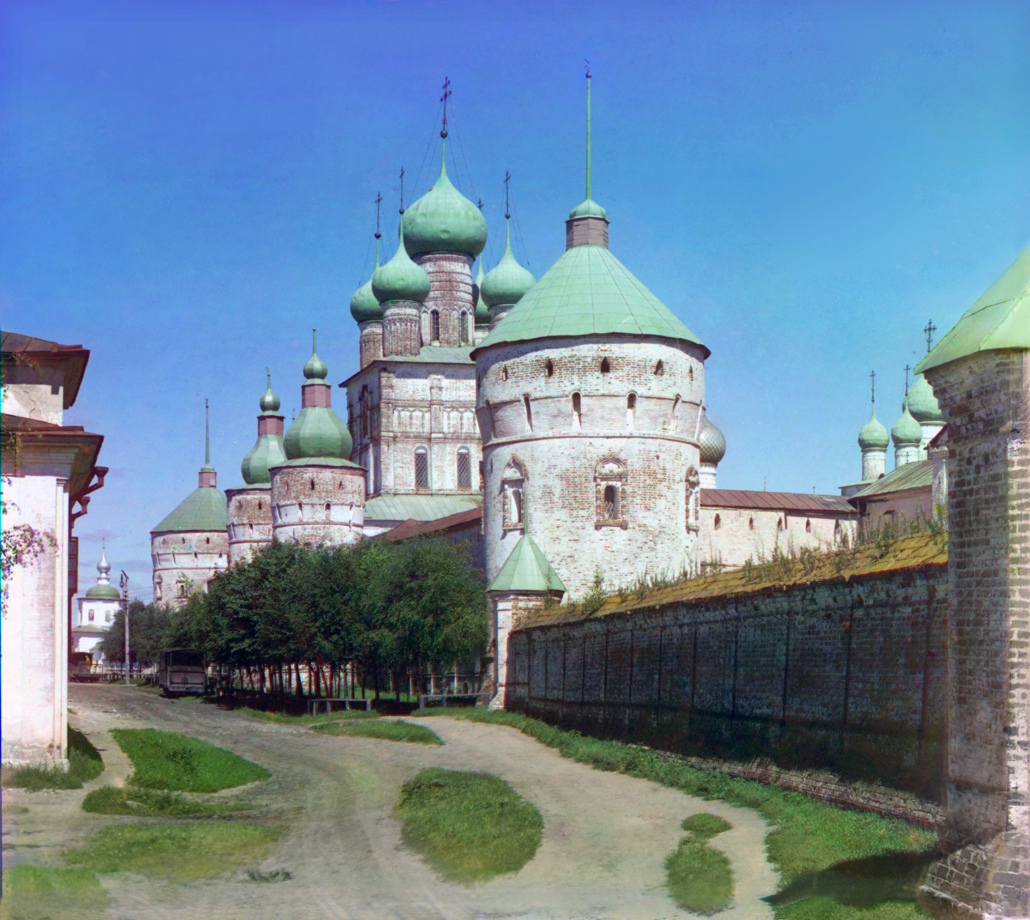 View of the Kremlin from the bank of Lake Nero. Rostov Velikii